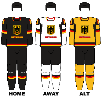 The home and away jerseys of the German ice hockey team with the German coat of arms in the middle.